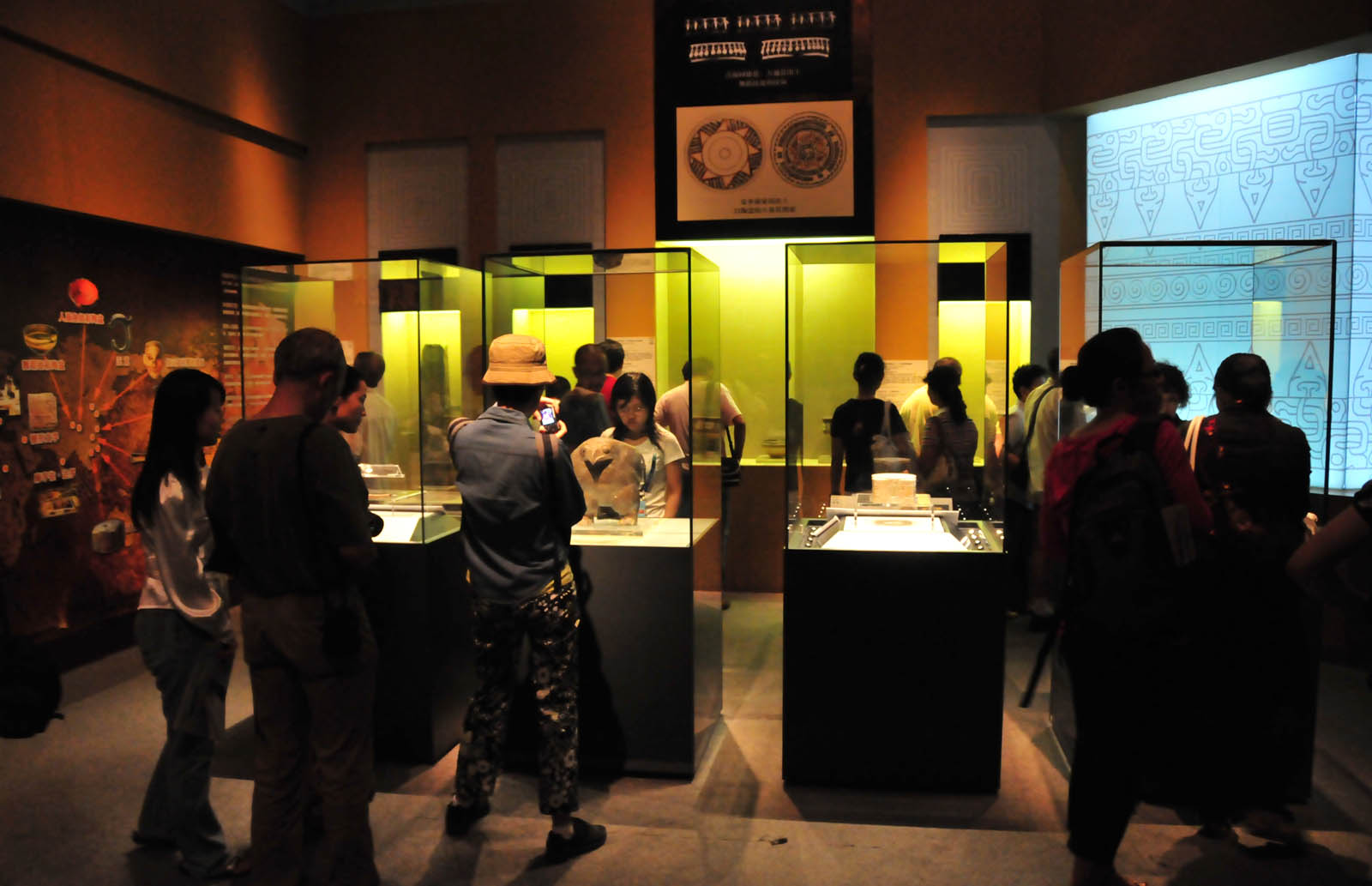 Art collection at the Capital Museum in Beijing